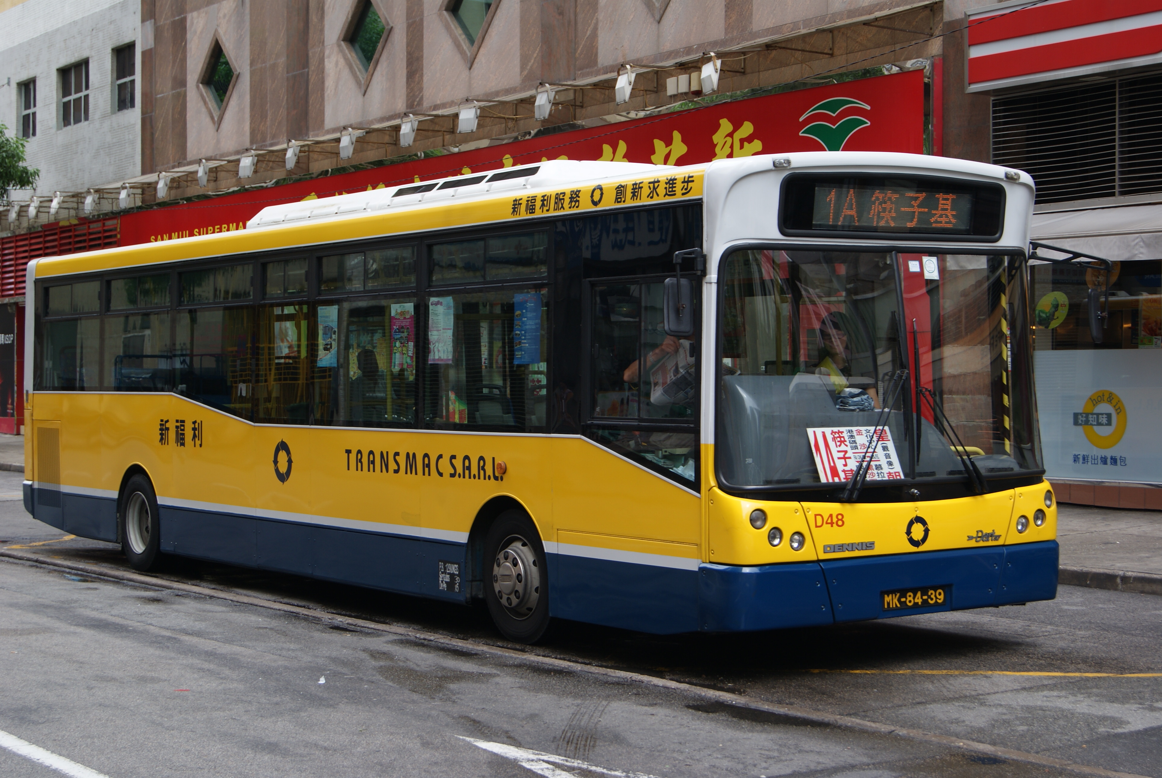 Transmac D48 at 1A